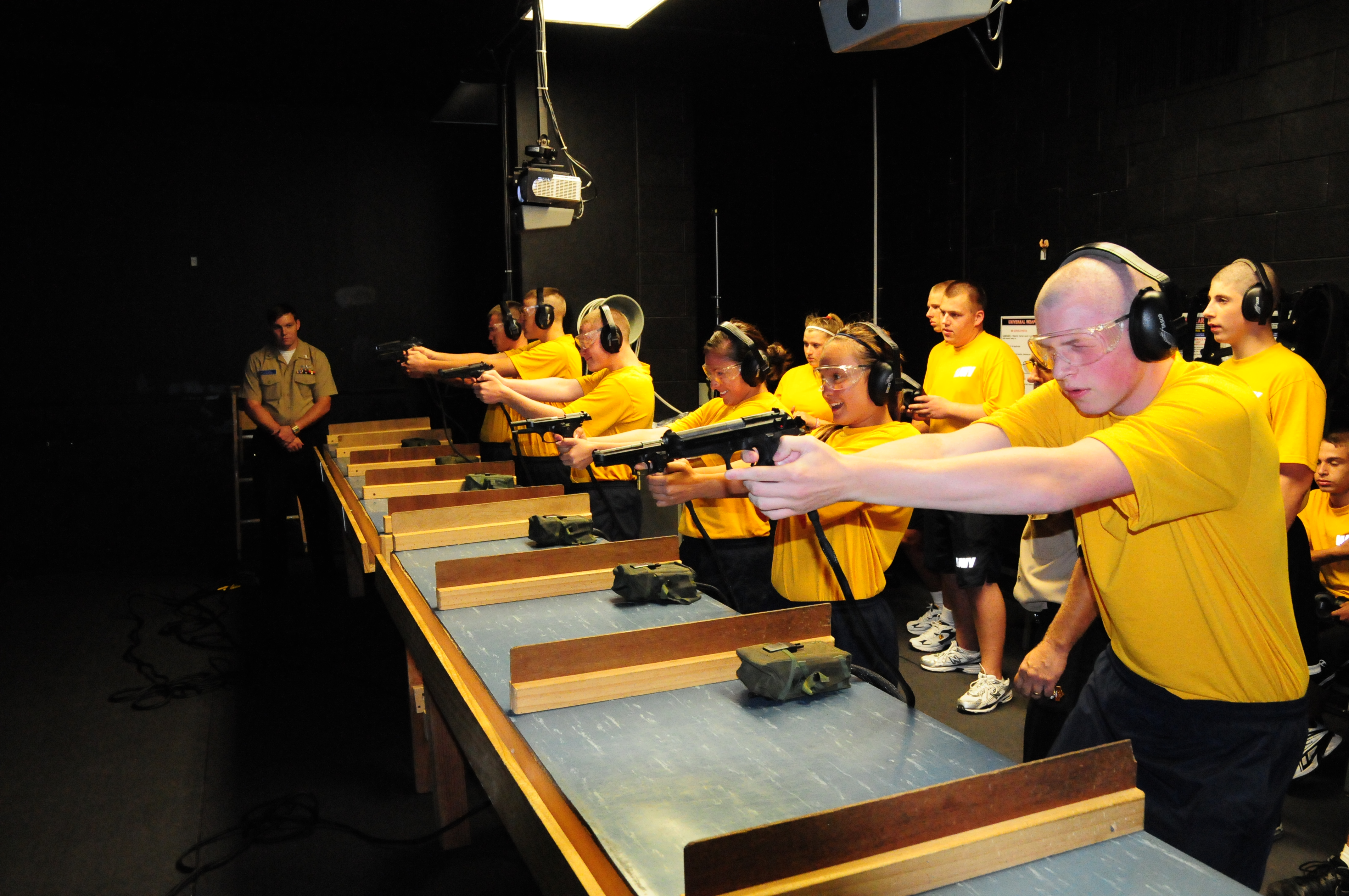 GREAT LAKES, Ill. (Sept. 23, 2010) Navy Junior ROTC cadets from Hamilton High School, Ohio, practice marksmanship at the Fire Arms Training Simulator (FATS) in the Gunner's Mate "A" School at the Center for Surface Combat Systems Unit at Naval Station Great Lakes. The cadets toured the school and other learning sites supported by Training Support Center Great Lakes, along with facilities at Recruit Training Command including recruit graduation. (U.S. Navy photo by James F. Antonucci/Released)